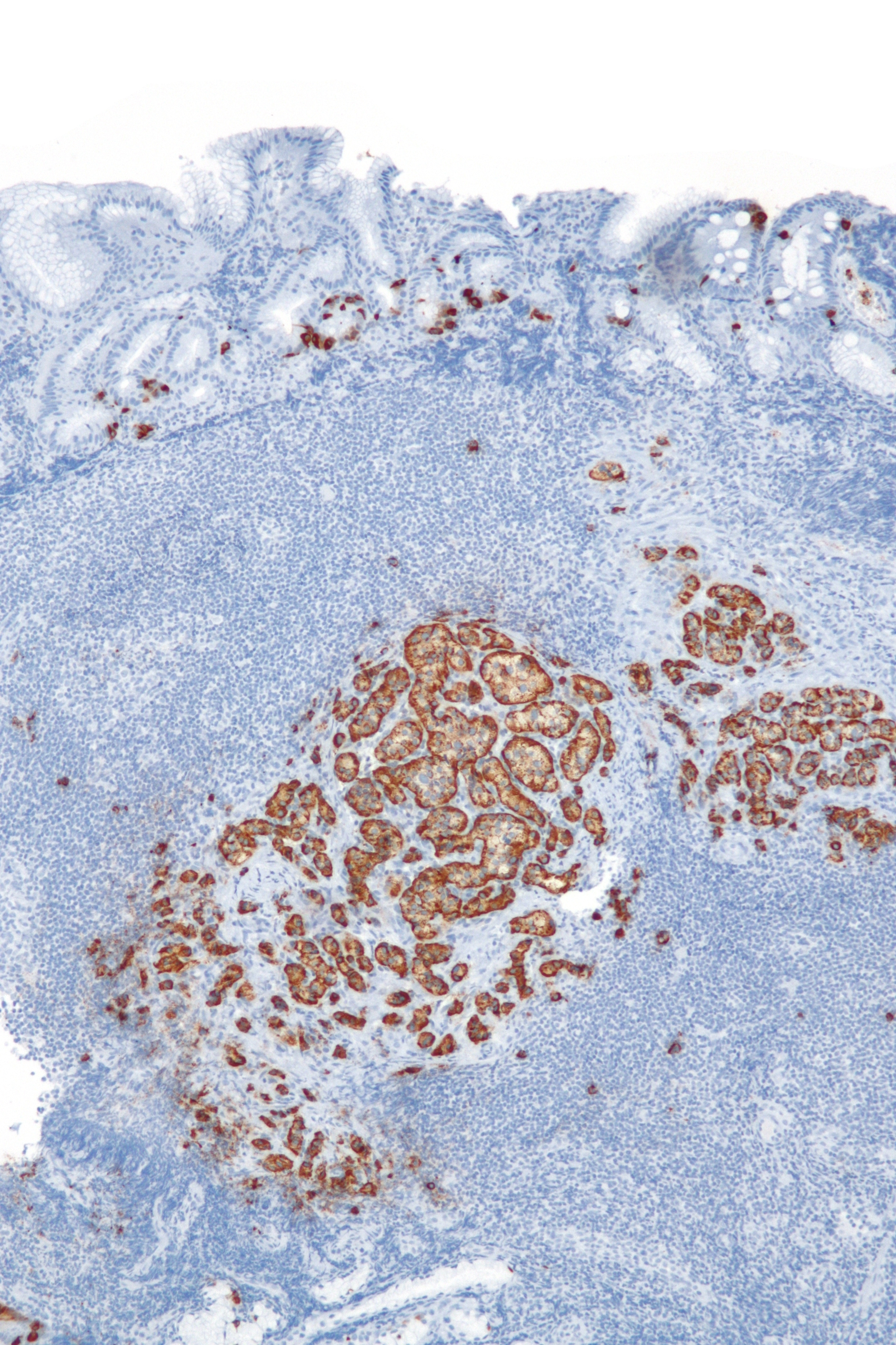 Intermediate magnification micrograph of a paraganglioma of the duodenum, also duodenal paraganglioma. Chromogranin A immunostain. Paragangliomas may be seen a number of syndromes - including: von Hippel-Lindau disease. Neurofibromatosis type I. Multiple endocrine neoplasia type 2a. Multiple endocrine neoplasia type 2b. Hereditary paragangliomatosis. The histomorphologic differential diagnosis of paraganglioma is: Metastatic renal cell carcinoma. Adrenal cortical rest. Related images Low mag. Intermed. mag. High mag. Very high mag. Intermed. mag. High mag. High mag. Very high mag.